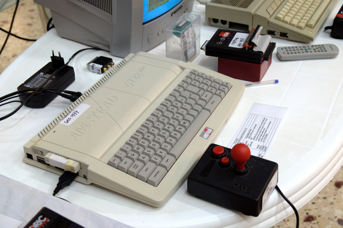 Amstrad CPC-6128 Plus - Retrosystems 2010 “This one is from the Nineties. It's an drastically improved CPC-6128 with excellent sound and graphics. Which, sadly, is entirely disabled unless you use game cartridges. If you want to use it as a computer, it's the same boring CPC-6128. Although the 6128 was a great computer for 1985, it wasn't exactly the best spec out there in the Nineties. Not very cleverly designed, which is a pity. If they'd left the hardware unlocked, it'd make a much better computer!” Tags: exhibit amstrad retrocomputing oldcomputers amstradcpc6128plus silogomaniacom collectingcomputers retrosystem2010 Retrosystems 2010 This retro-computing (and gaming) exhibit on the 4th and 5th of December, 2010, was organised by a forum of collectors, and displayed a number of the Classics.